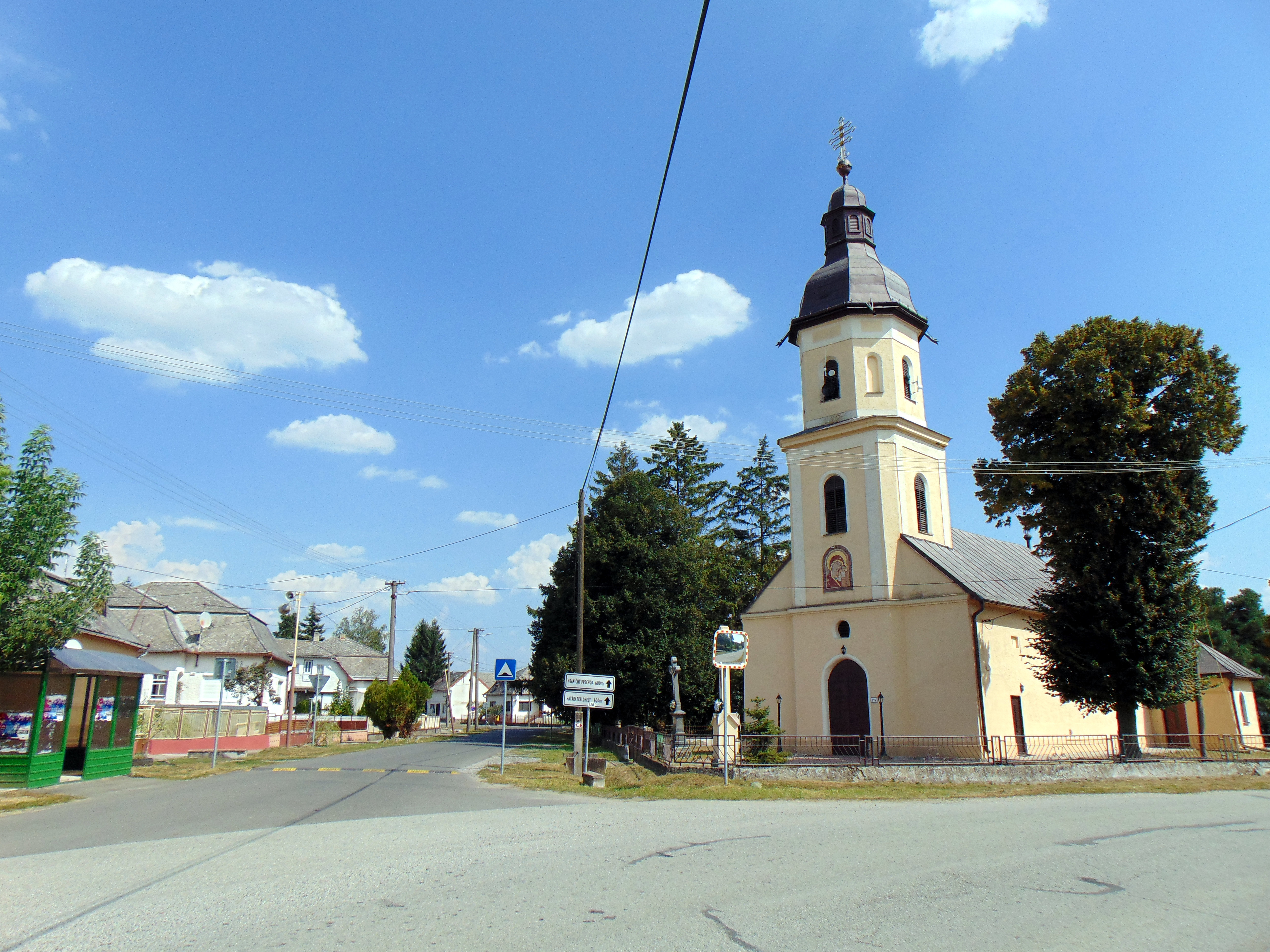 Greek Catholic church in the village of Veľké Slemence/Nagyszelmenc divided by Slovakia-Ukraine border.